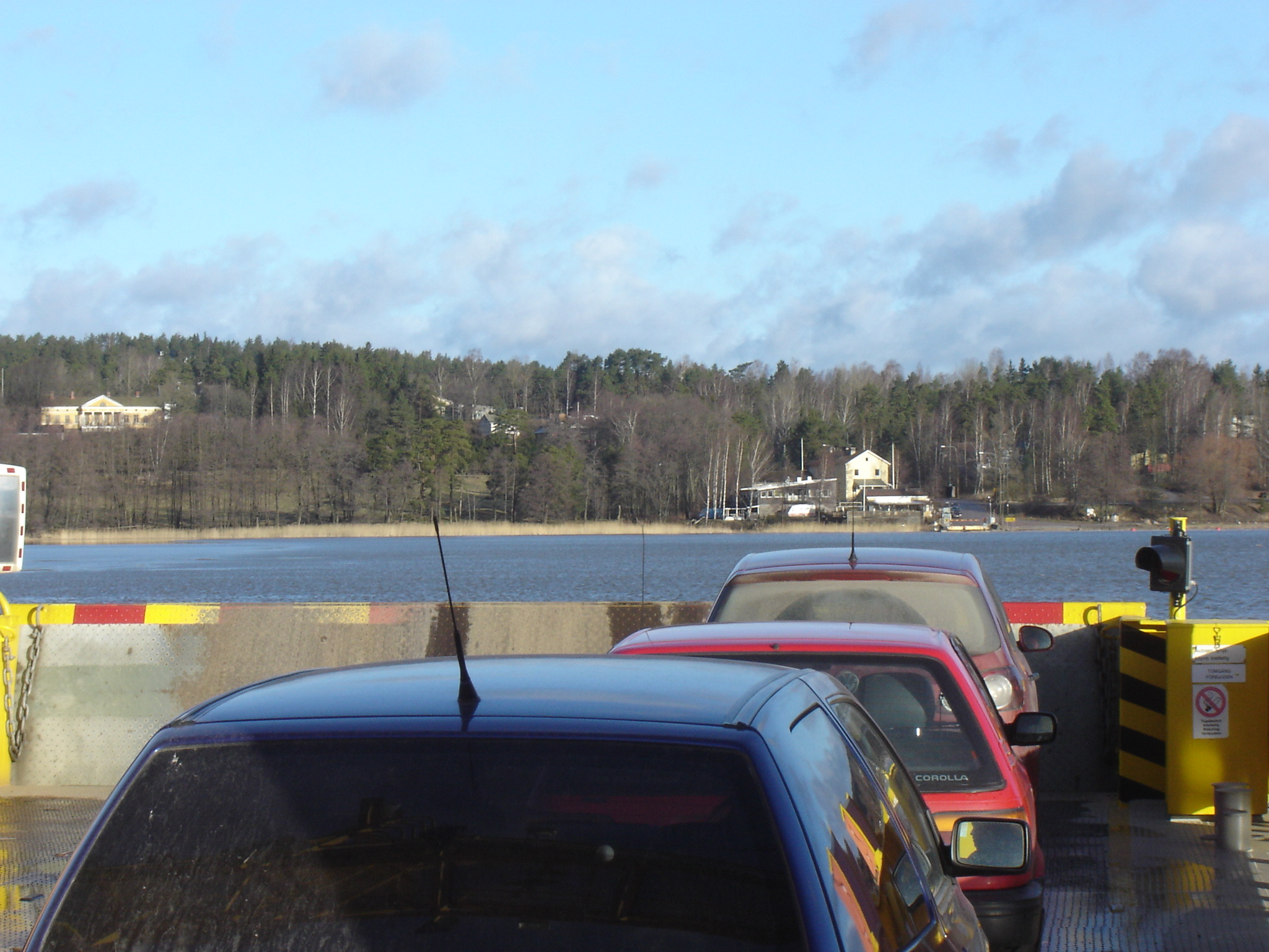 Village of Kokkila in Halikko, Finland. Pictured from a cable ferry over the Kokkilanselkä Strait. Tammenpää manor is in the left side of the picture.